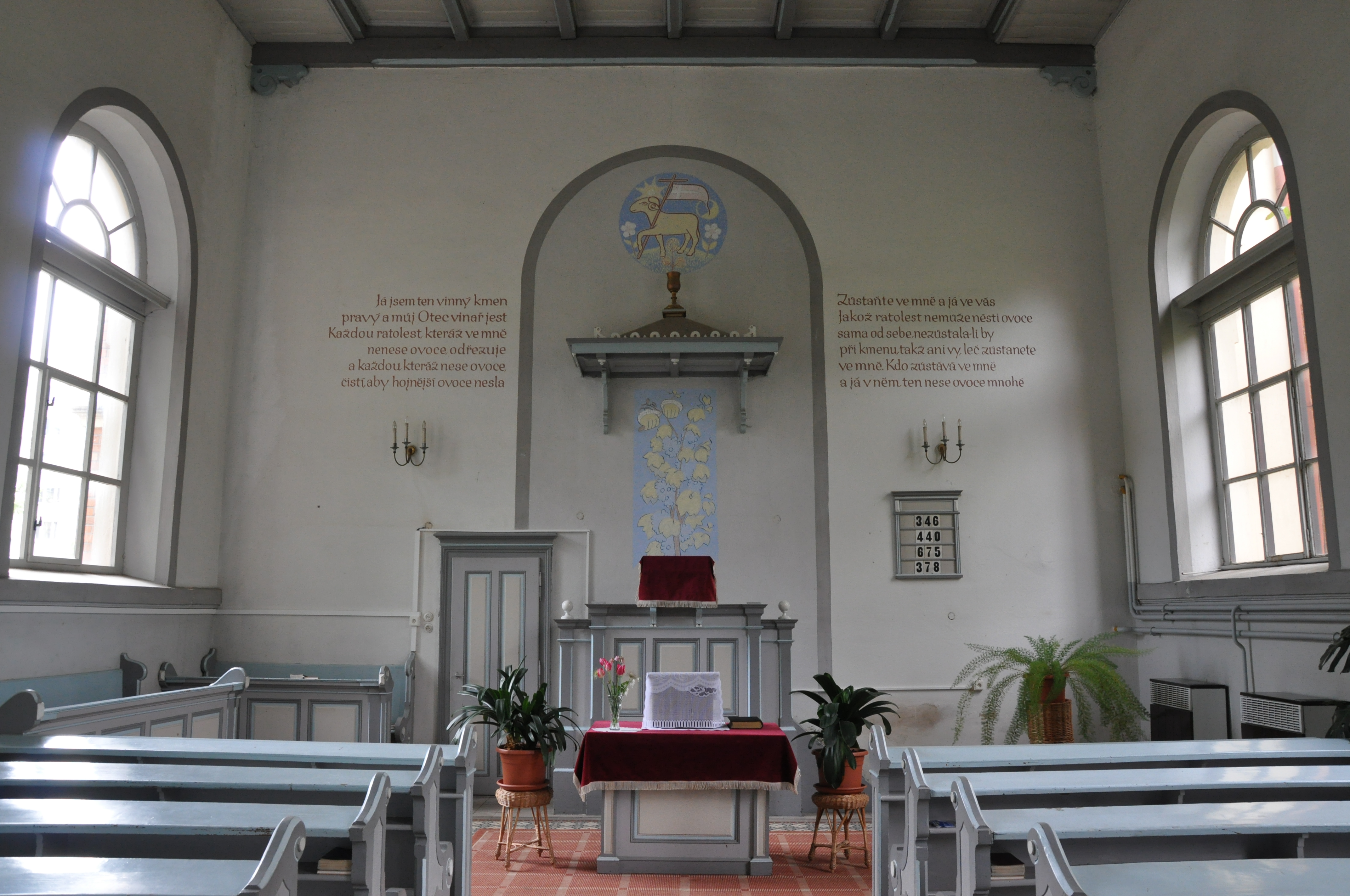 This image was acquired during the event Wikiměsto Hustopeče. Hustopeře, evangelický kostel, interiér